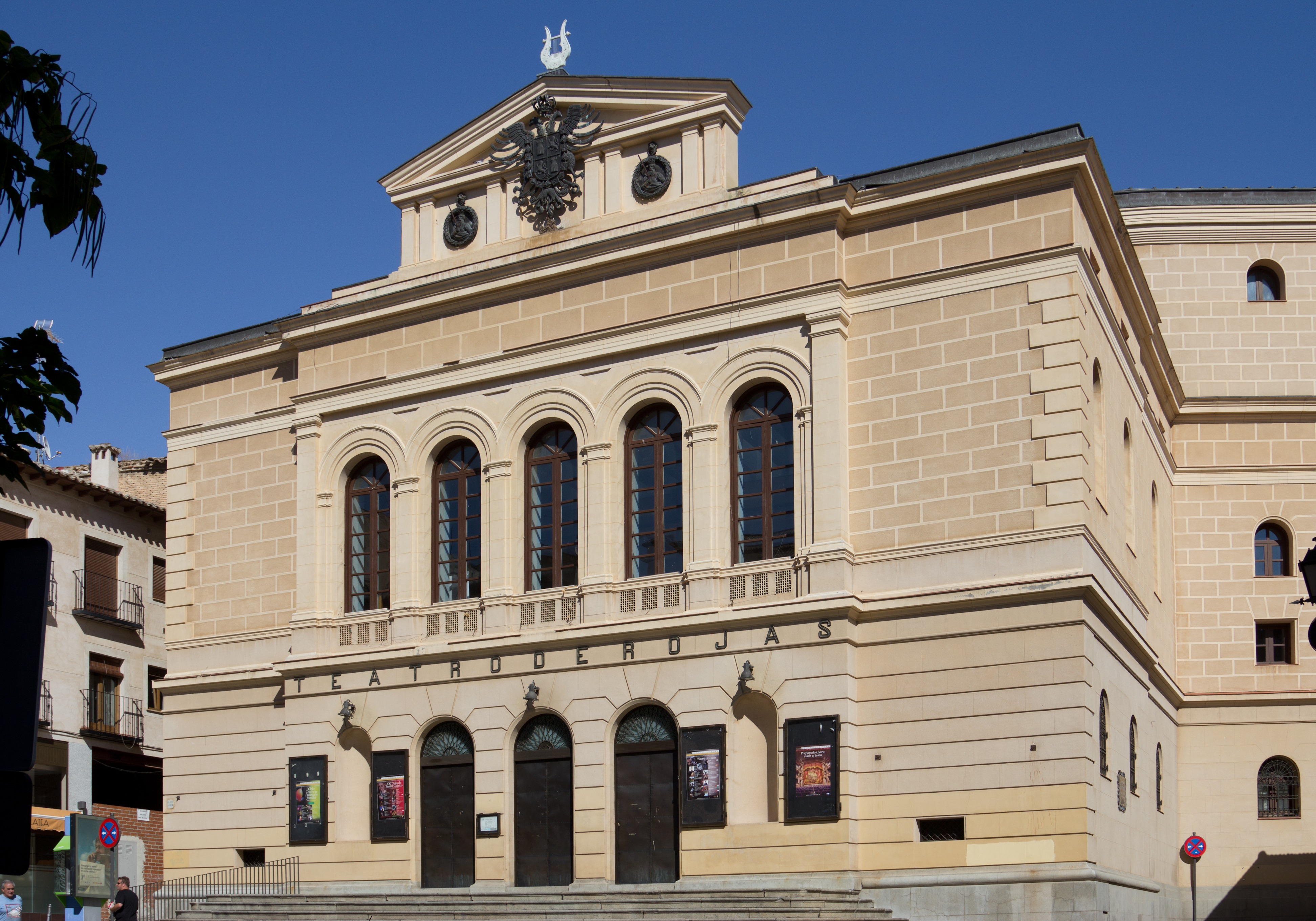 Theatre Rojas, Toledo, Spain.